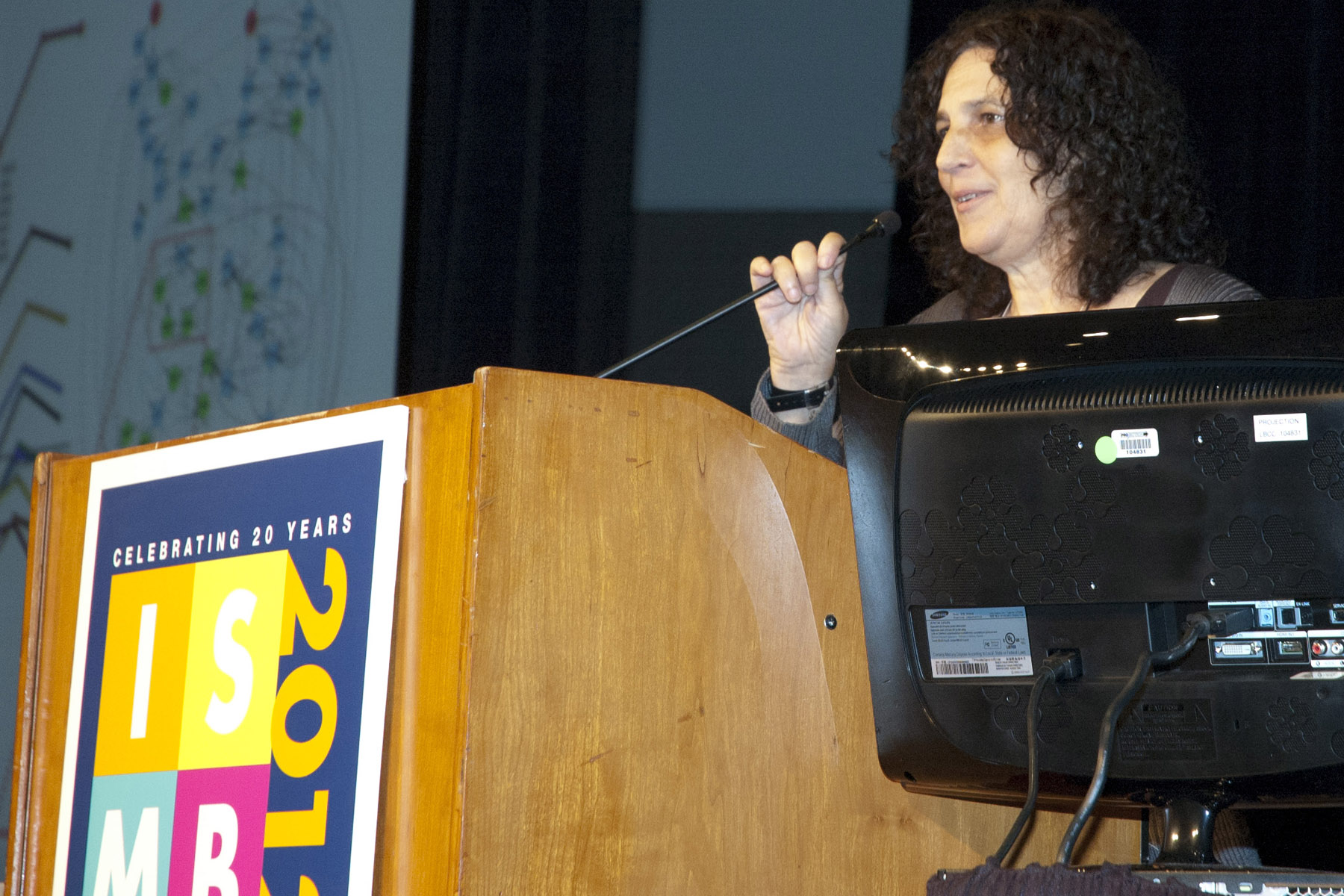 Michal Linial Introducing ISCB 2012 Overton Prize recipient Ziv Bar-Joseph